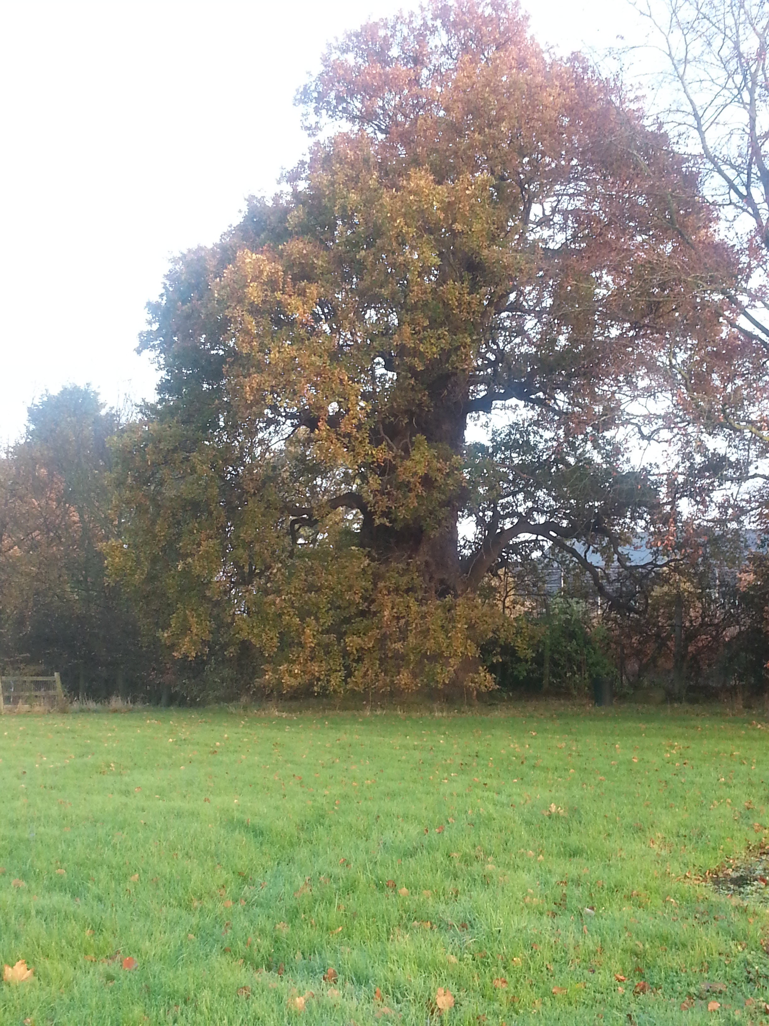 this 1000 year old oak is on the grounds of Stoneleigh Abbey and predates the 1154 monastic abbey itself, dated at between 980 and 1050 years old it is situated for visitors to stoneleigh Abbey in warwickshire to view